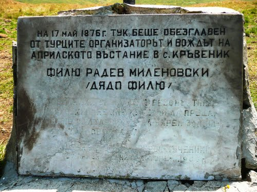 no